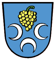 Coat of arms of the Town Winzer (Niederbayern) Image:Wappen von Winzer.png